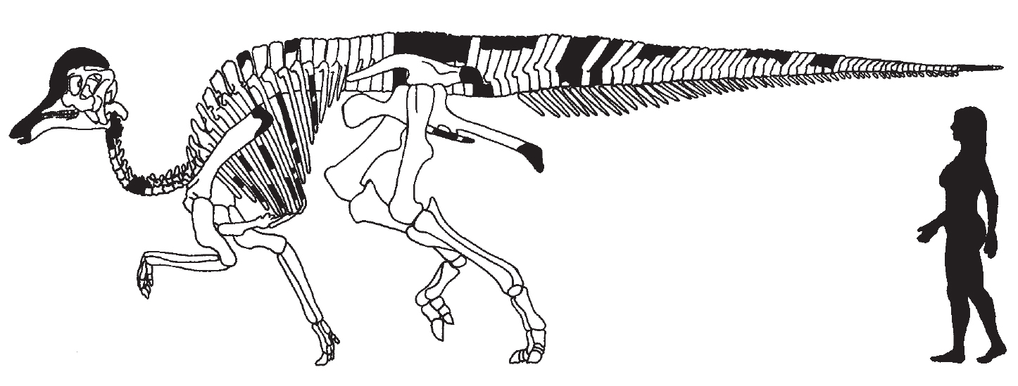 Skeletal reconstruction of Amurosaurus riabinini Bolotsky and Kurzanov, 1991. Black elements are not preserved in the available material.